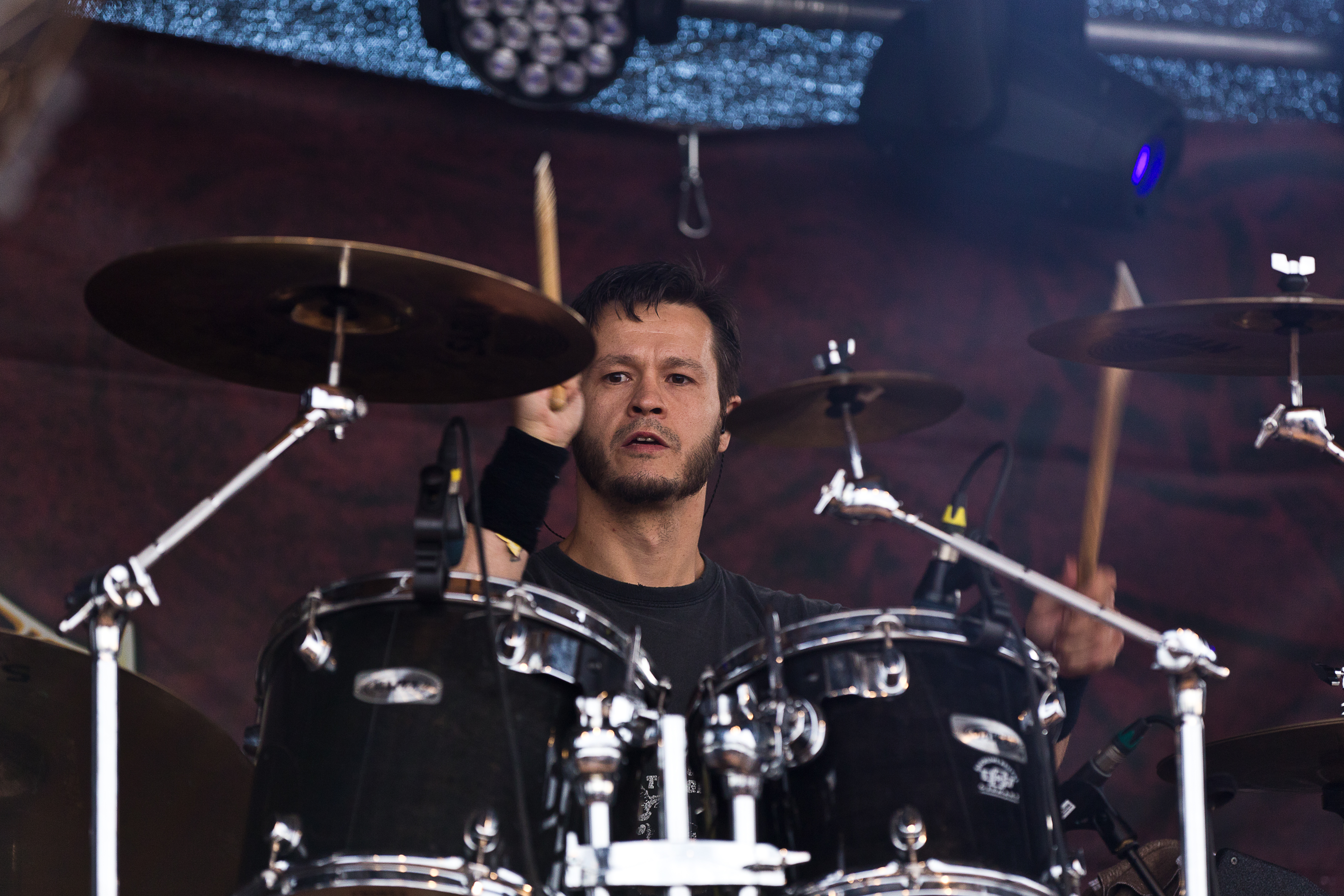 The German melodic death metal band Suidakra at the Rockharz Open Air 2015 in Ballenstedt/Germany.